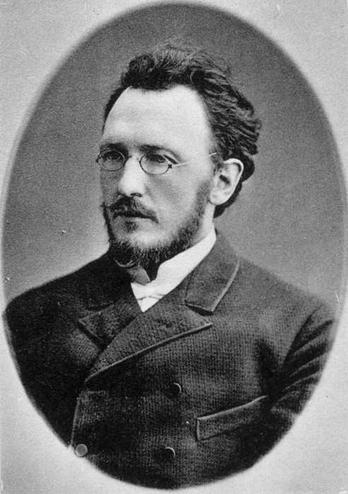 Nicolai V. Nasonov